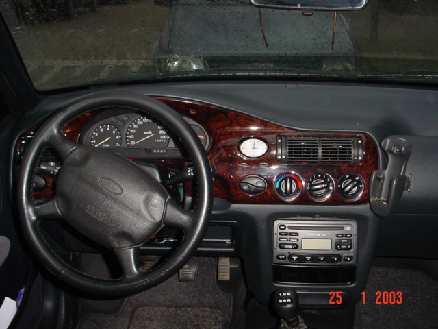 Interior of my European 1997 Ford Escort 1.8TD (90 HP) GHIA (at the moment of upload 312.000 km, and no engine problems during the last 120.000 km)